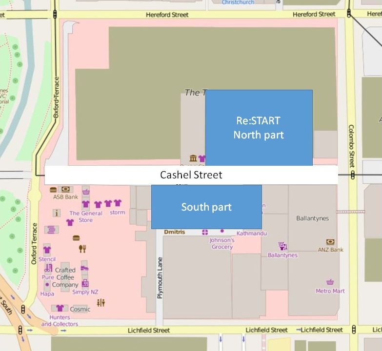 Original location of the Re:START mall. Basemap is OpenStreetMap licensed as CC BY-SA